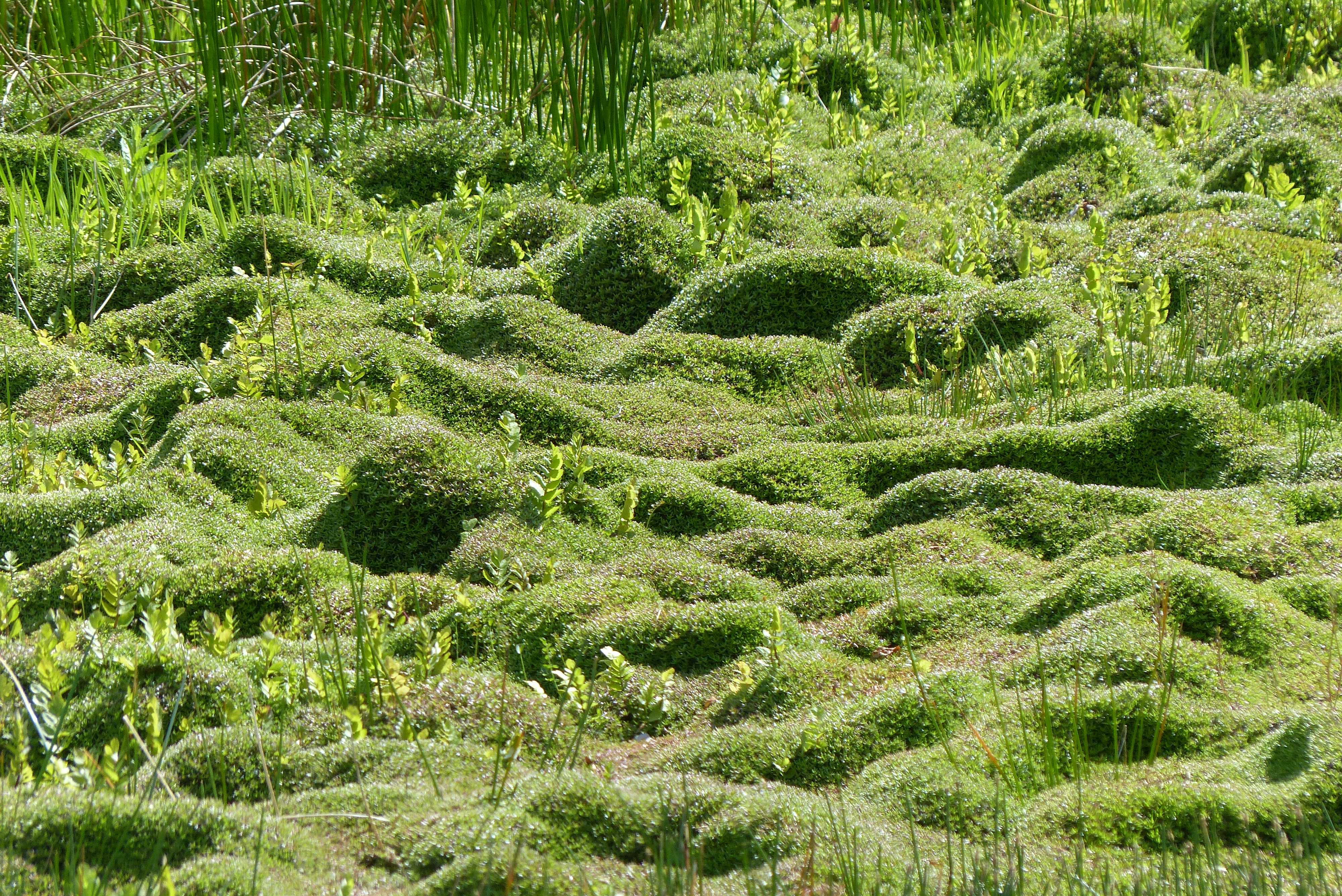 Crassula helmsii